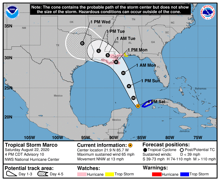 Forecast track for then Tropical Storm Marco at 4 p.m. CDT on August 22, 2020